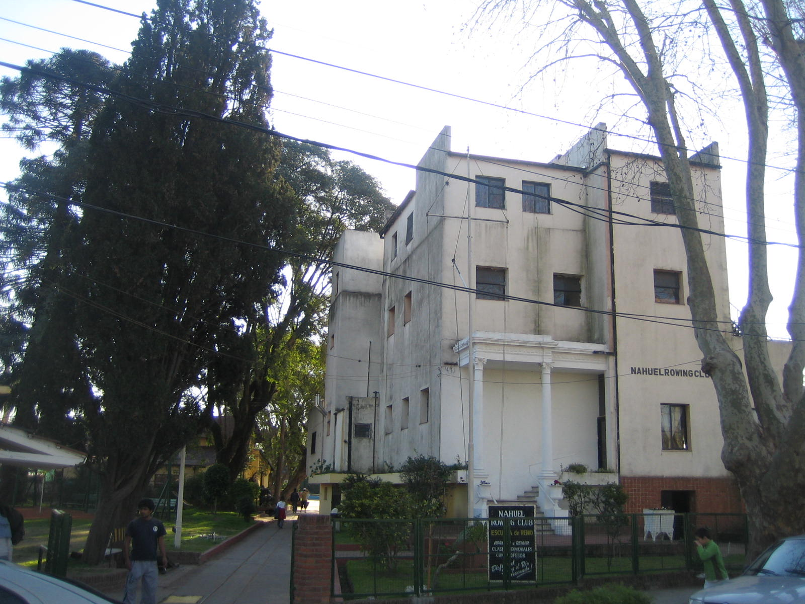 Nahuel Rowing Club - El Tigre - Buenos Aires - Argentina